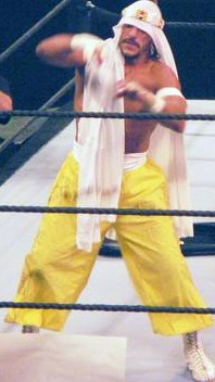 Sabu at a Smackdown!/ECW live event in 2006 at Cincinnati Ohio